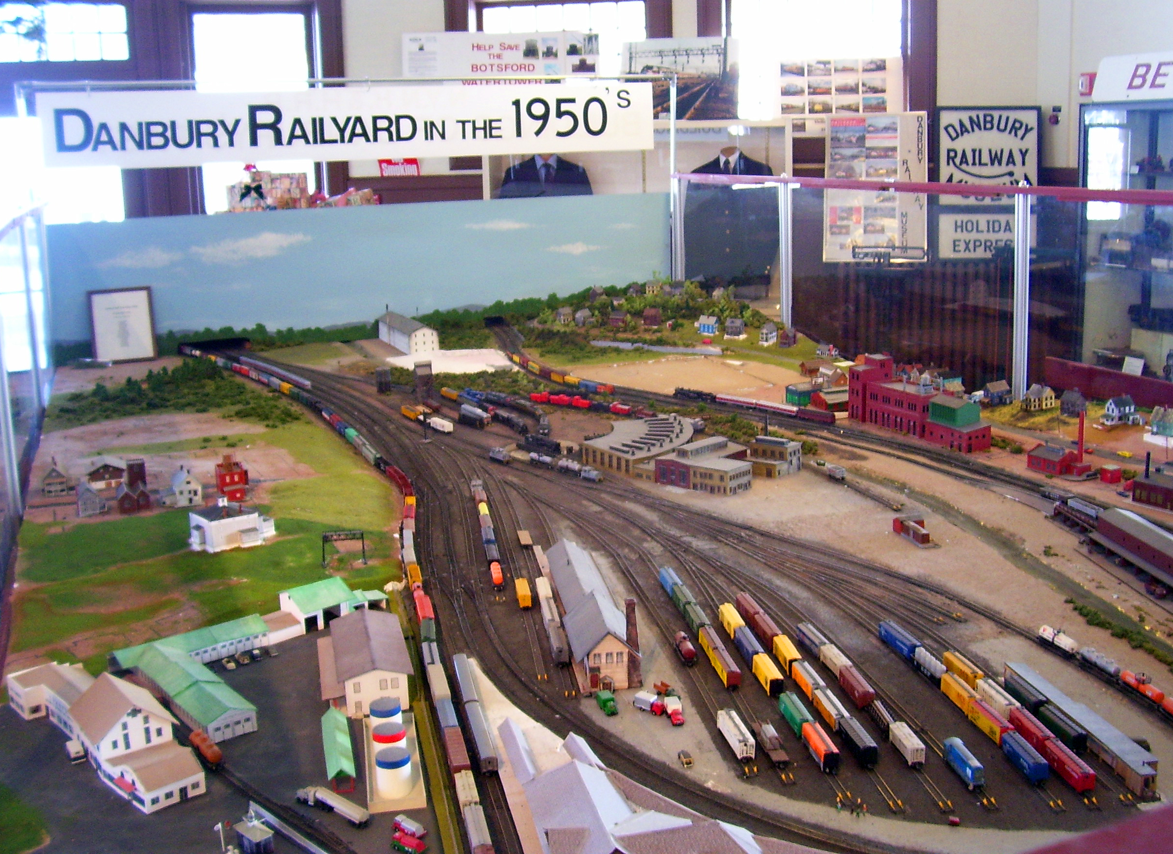 Model railroad display of area around Danbury Railway Museum during 1950s when museum was city's main passenger rail station